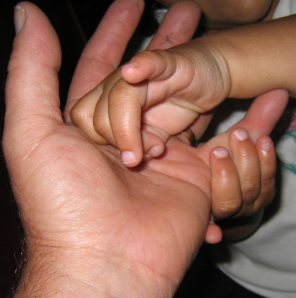 Kiki playing with daddy's hand.